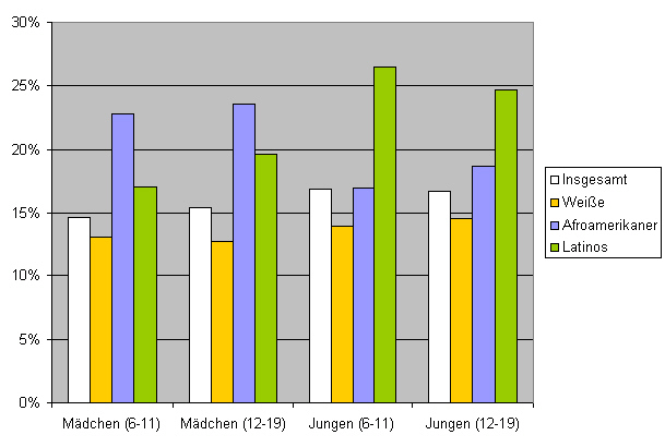 Chart: percentage of children with overweight in the United States, 1999-2002; source of data: [1]